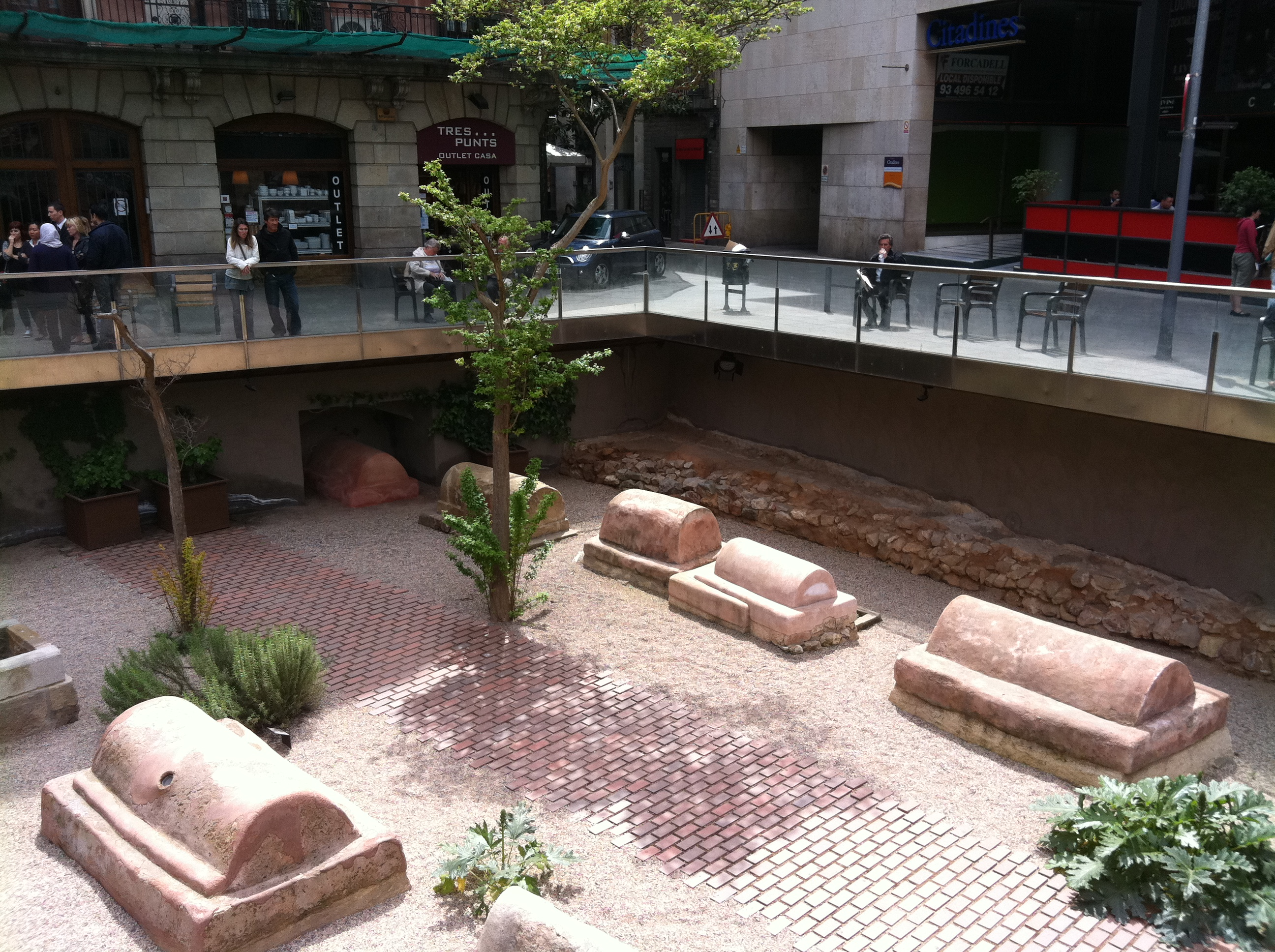 Barcino ancient Roman burial route at Plaça Villa de Madrid